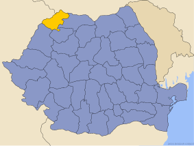 Location of Satu Mare County in Romania.